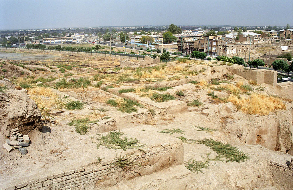 A view of the tell of ancient Ecbatane, Hamadan, Iran.